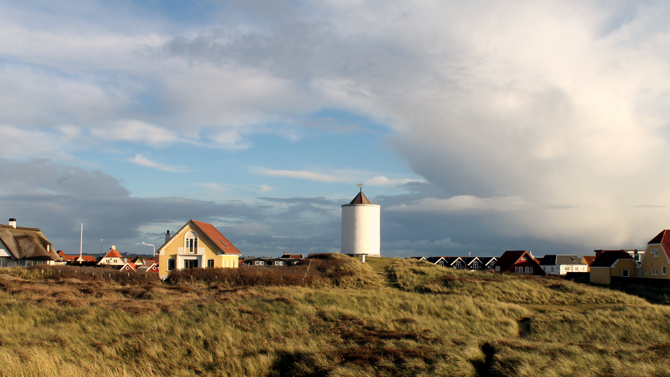 Water tower in Løkken, Denmark